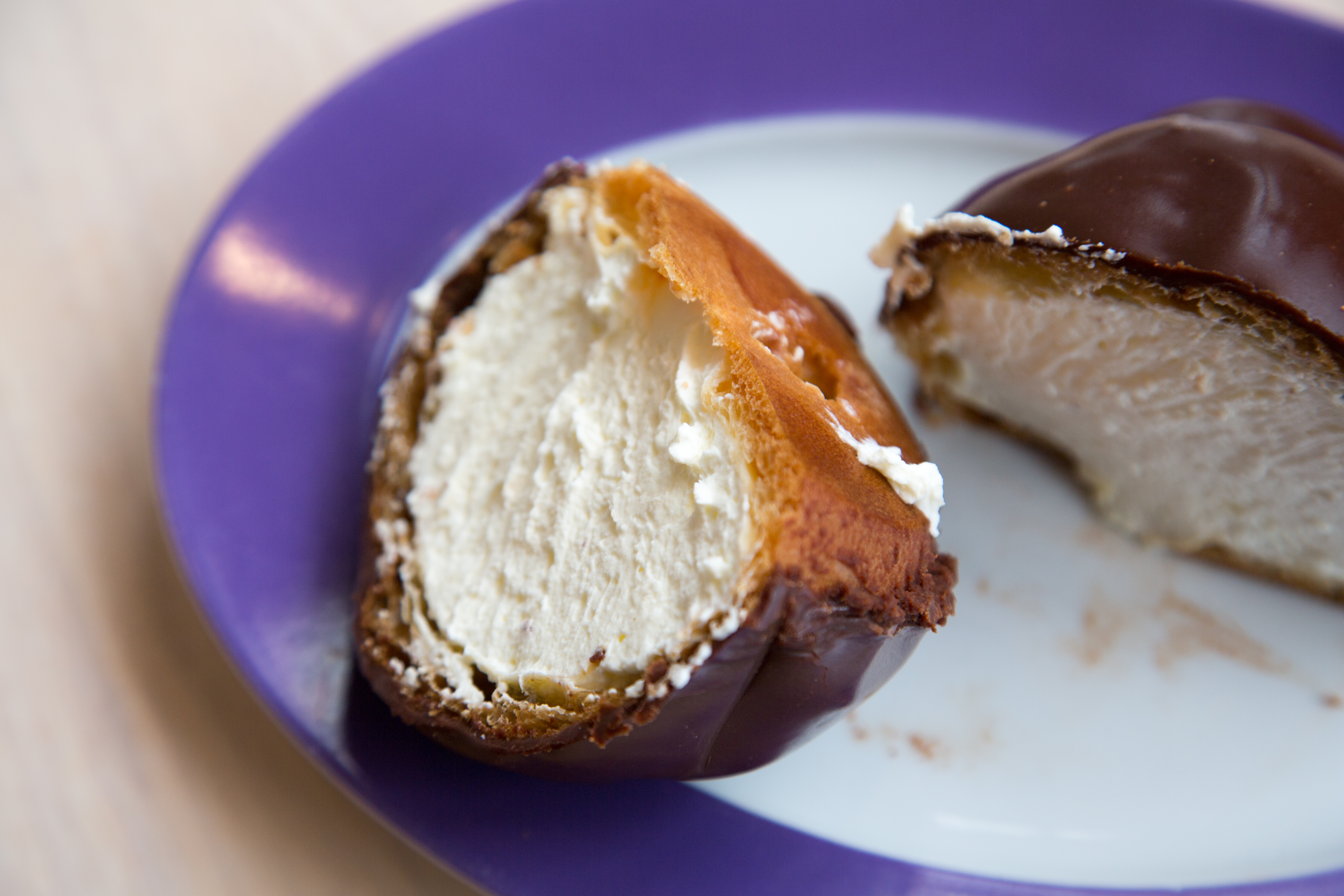 A Bossche bol